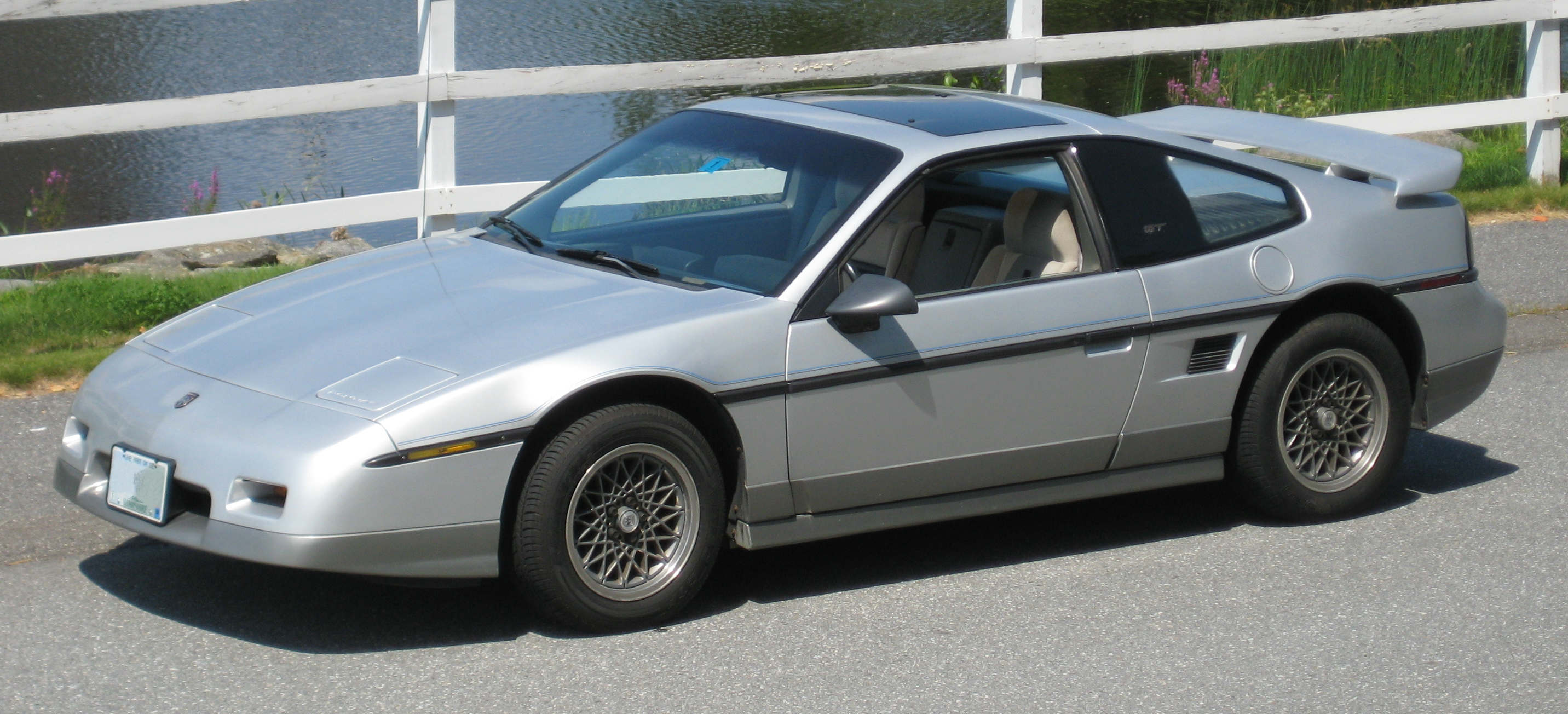 This is StalePhish's 1987 Pontiac Fiero GT